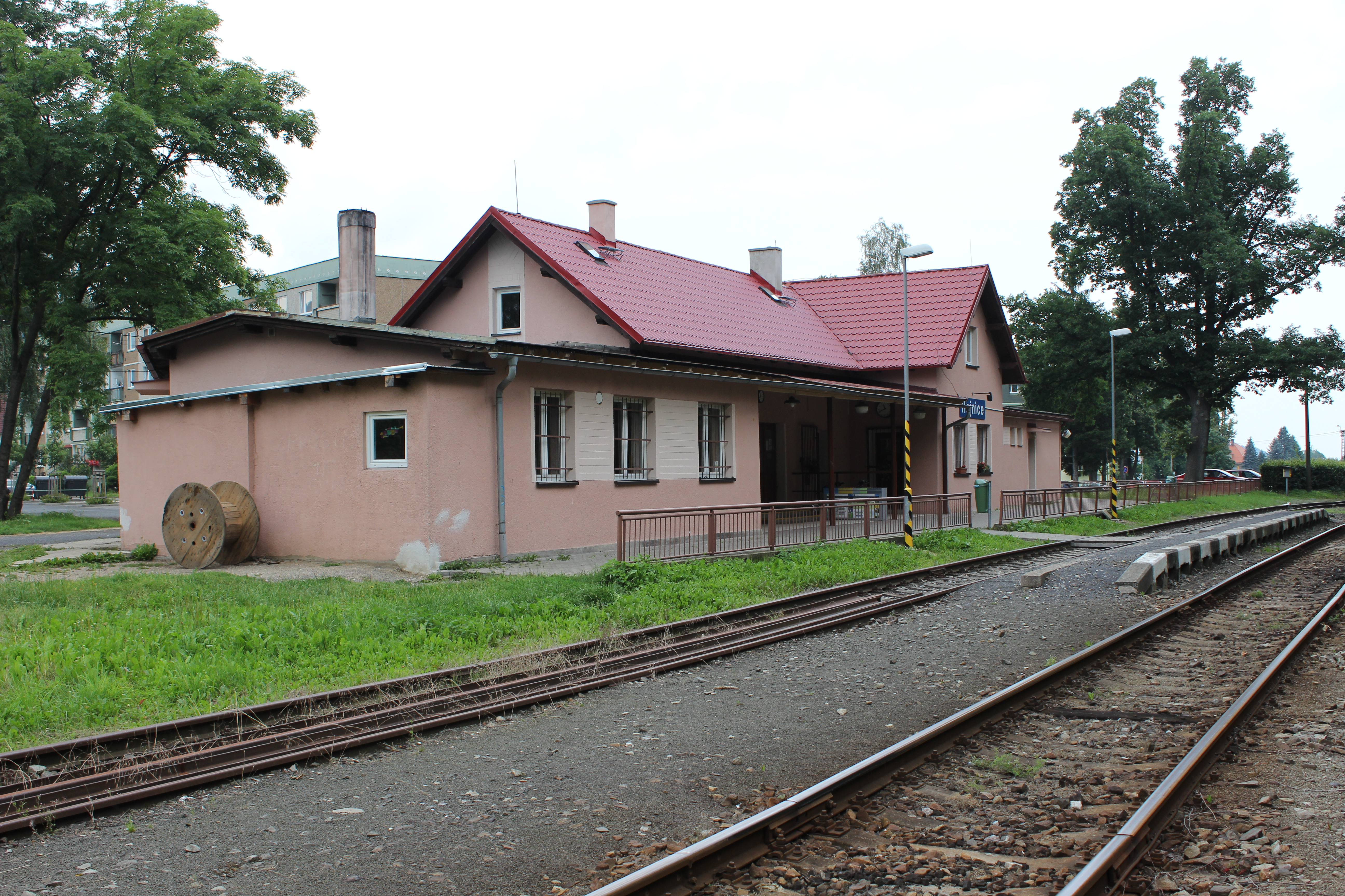 Hejnice railway station